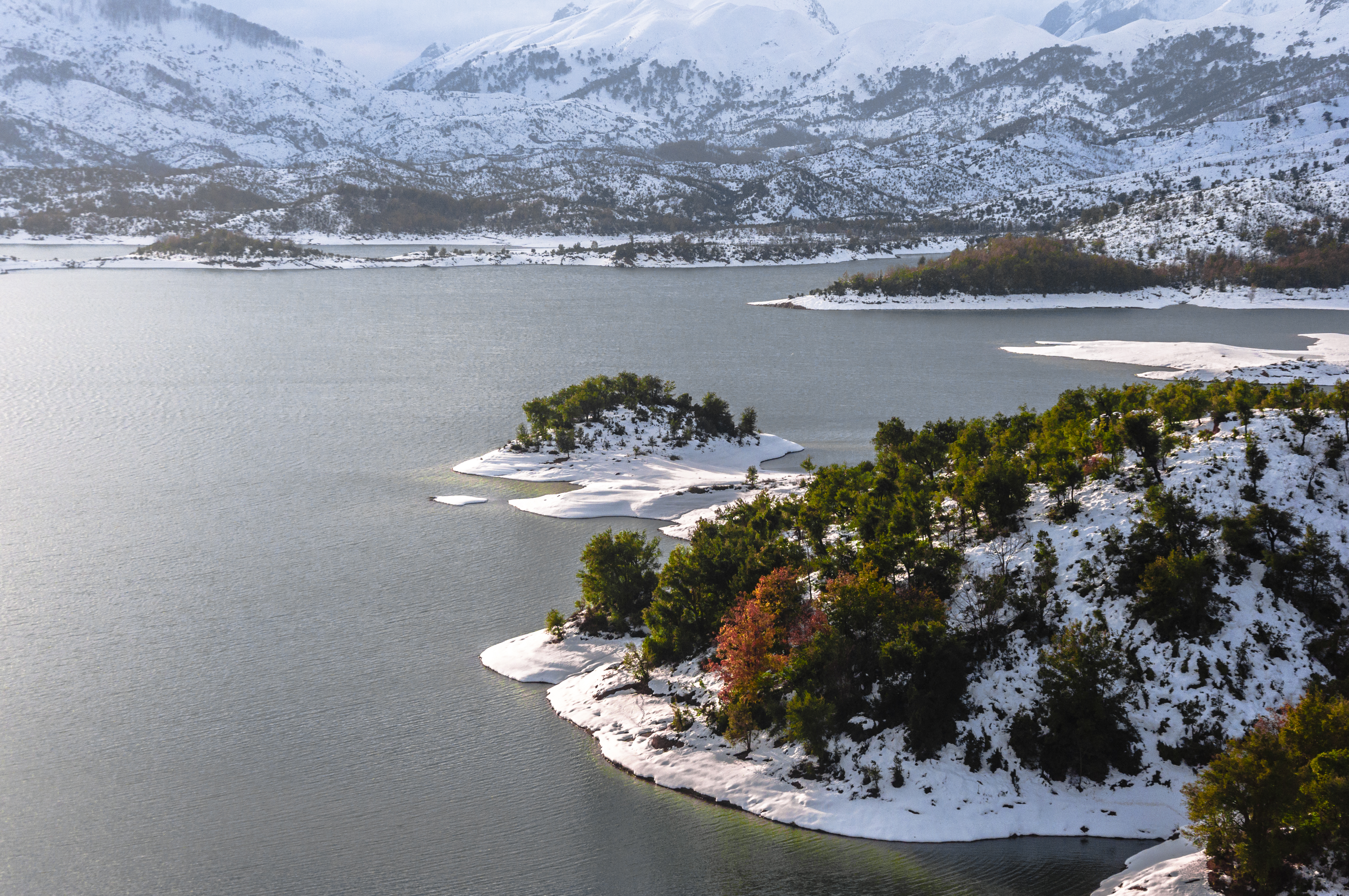 Dam of Erraguene under the snow, in the wilaya of Jijel. Algeria